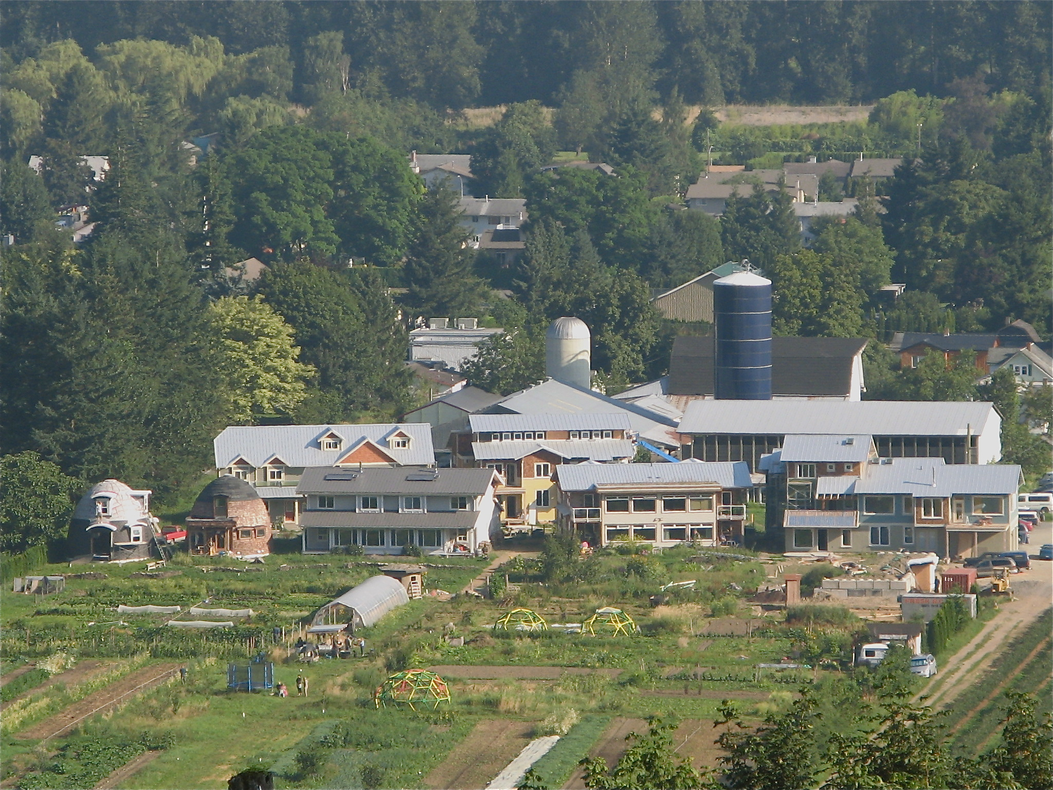 Photograph of Yarrow Ecovillage taken from Hillside Drive, on Vedder Mountain, to the south of the ecovillage.